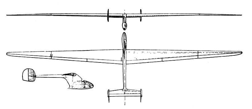 Küpper Kü 4 Austria Elefant glider 3-view drawing from L'Aerophile January 1931